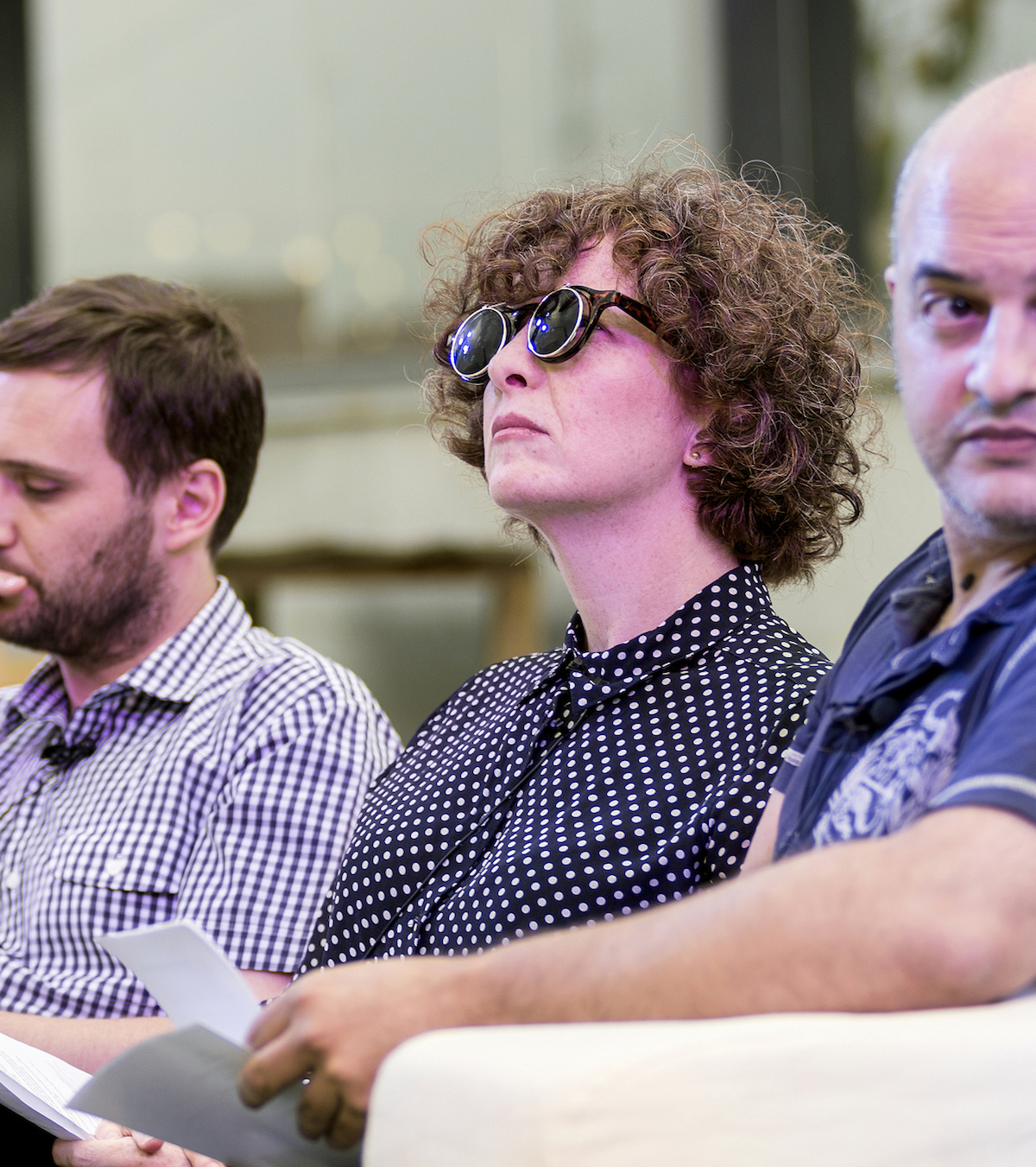 Artist Daniela Franco at MUJERES ENCINTA + JEF BARBARA, CA2M, Madrid, 2014.